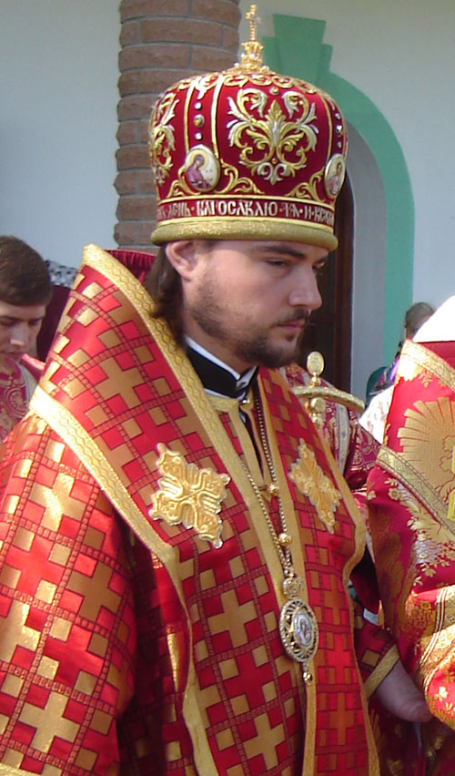 Bishop Alexander (Drabynko) of Pereyaslav-Khmelnytskyi. Ukrainian Orthodox Church